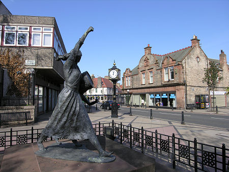 Tranent Civic Square